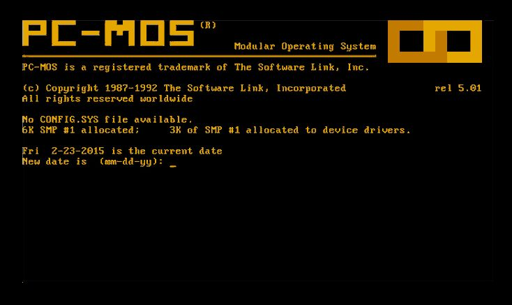 A screen-print of the PC-MOS-386 startup screen